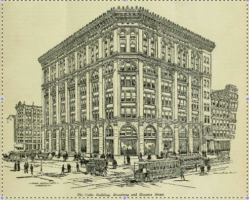 Drawing of The Cable Building at 611 Broadway, Manhattan in 1893. Architect was Stanford White of McKim Mead & White